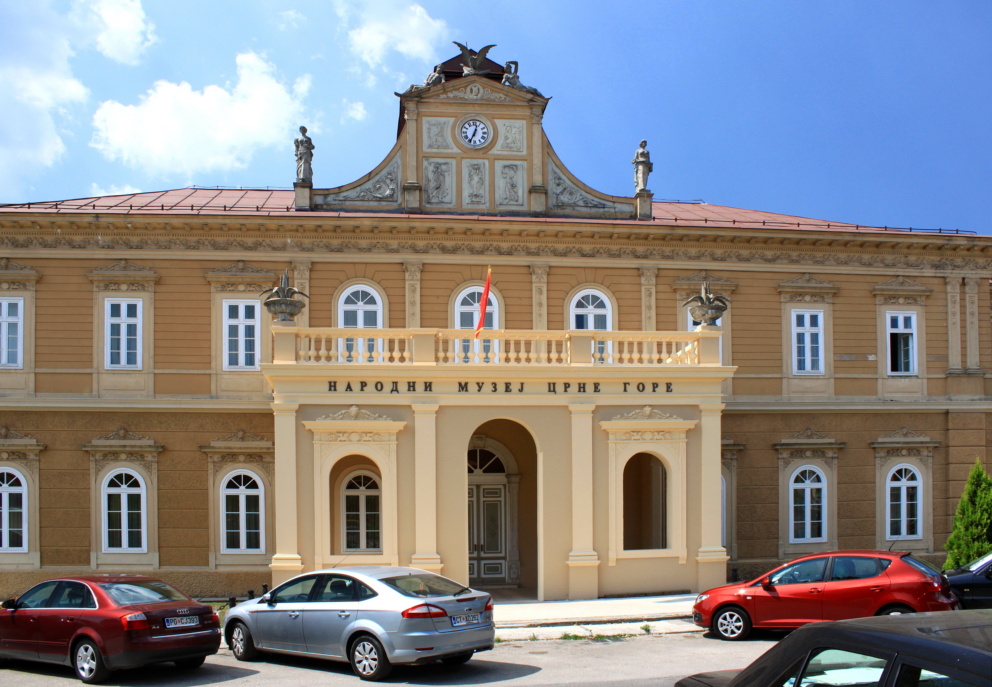 Government House - former parliament building of Montenegro. Currently: Art Museum and Historical Museum. Cetinje, Montenegro.